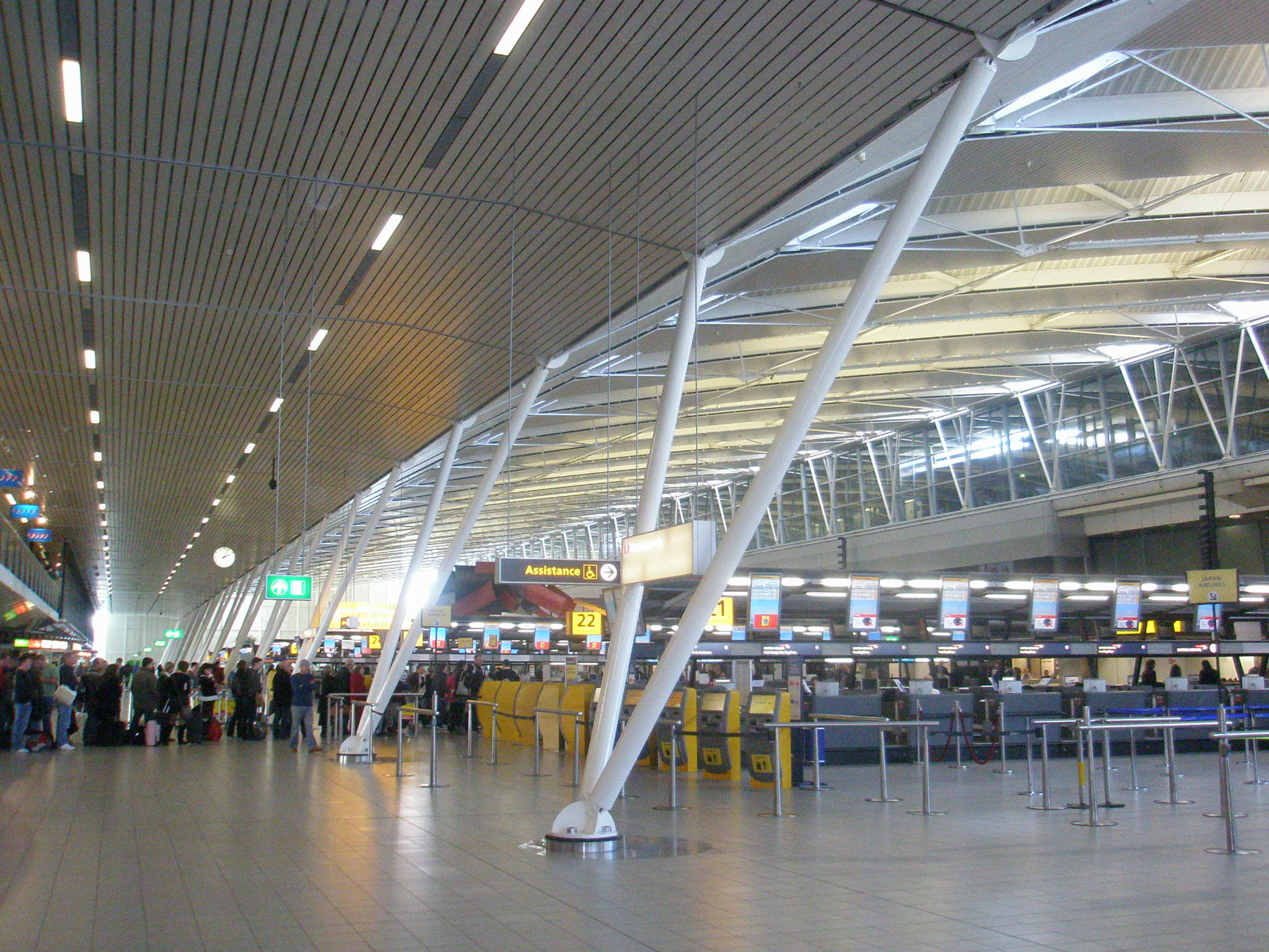 Departure hall 3 at Amsterdam Airport Schiphol